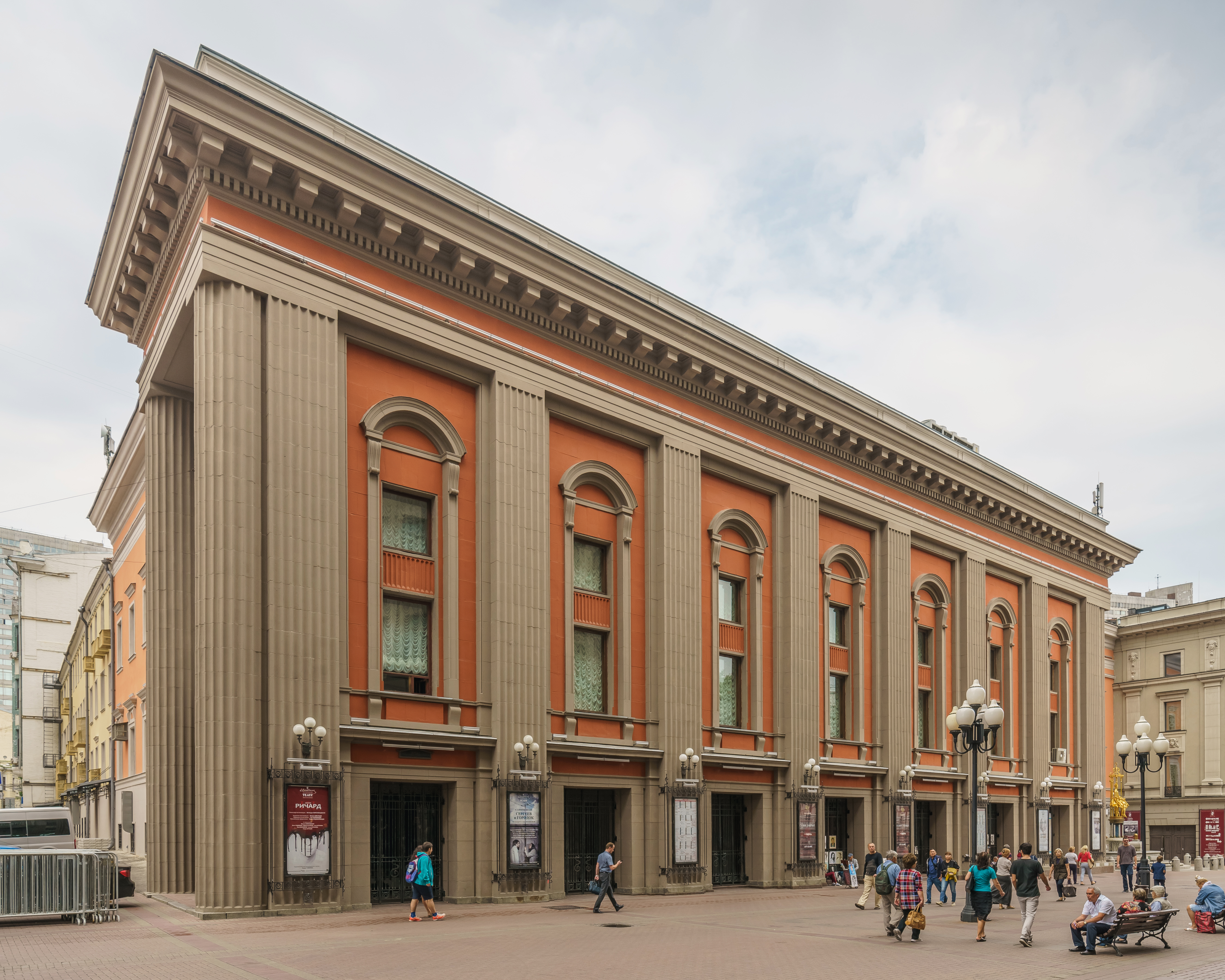 Vakhtangov Theater (old stage) in Moscow, Russia